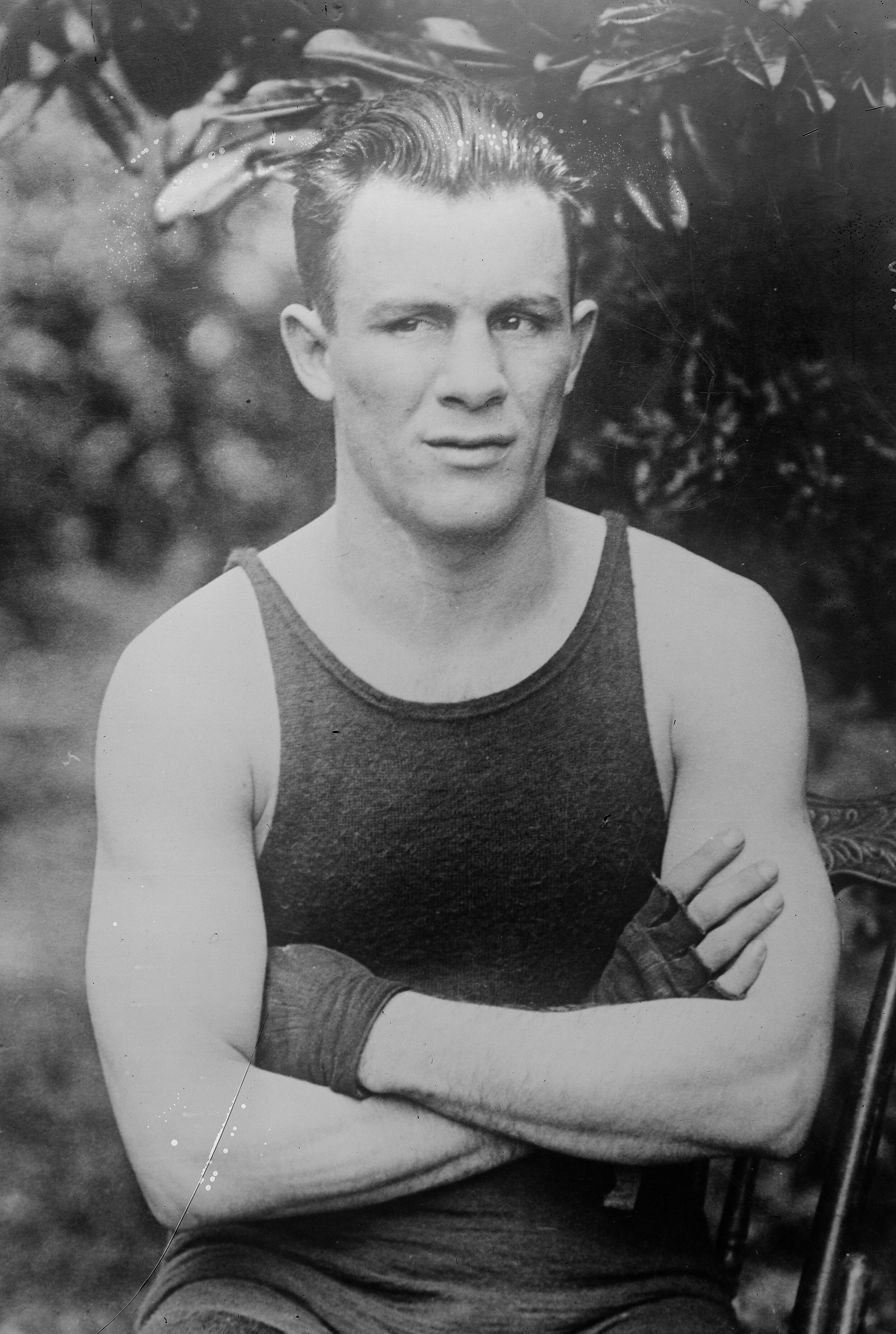 Memphis Pal Moore's picture